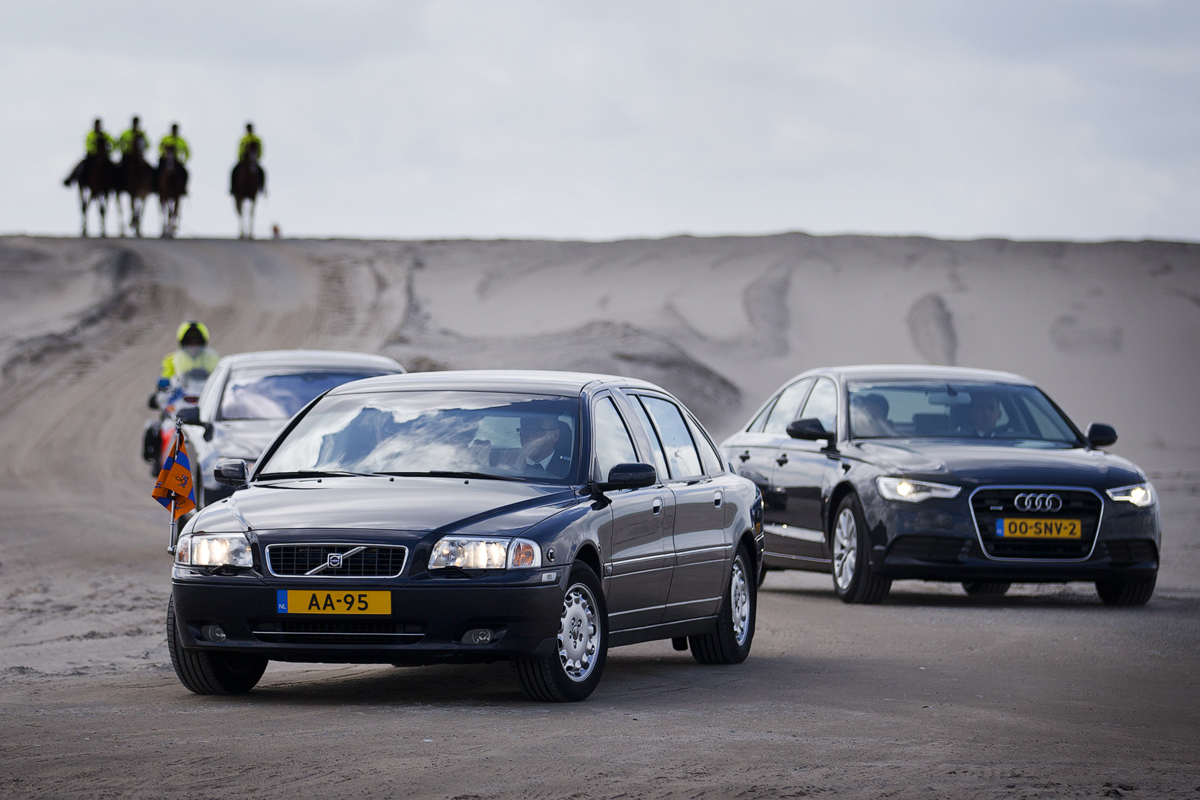 Car being used by Dutch King Willem Alexander.